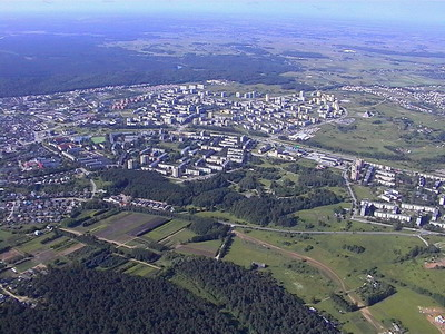 Alytus